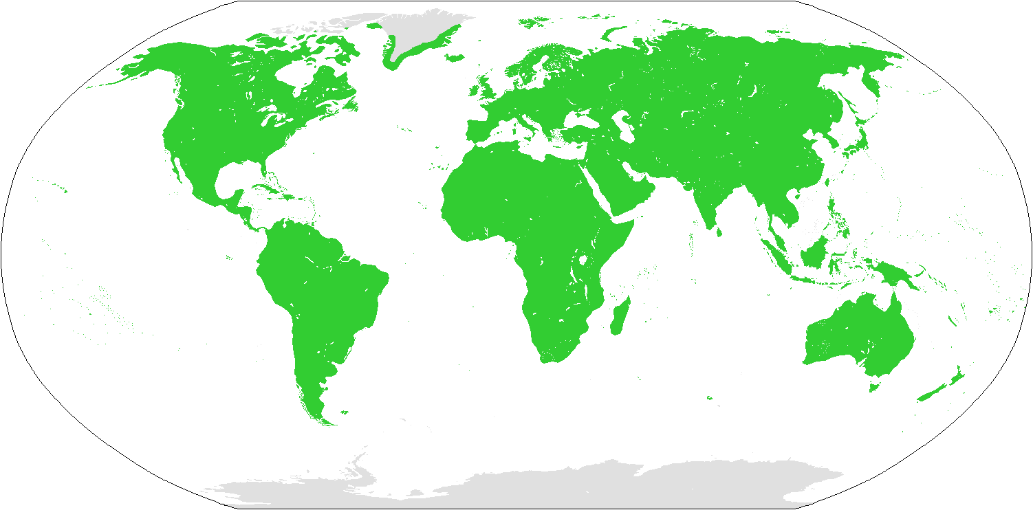 Terrestrial range of the Homo sapiens